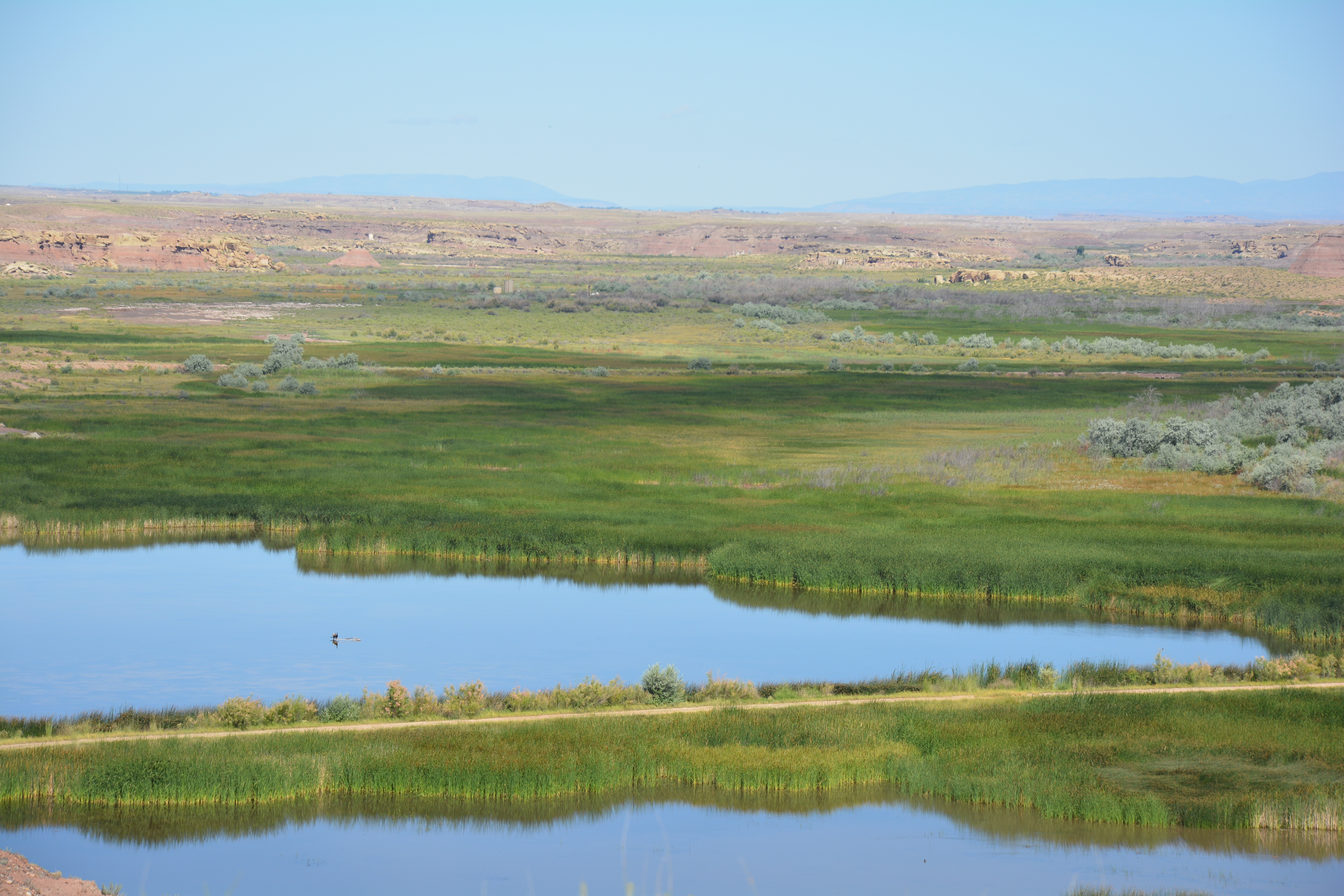 Today #mypubliclandsroadtrip heads to a birdwatcher’s paradise - the Pariette Wetlands! The largest wetland managed by BLM Utah, Pariette Wetlands is the oasis of the Uinta Basin. It is surrounded by vast miles of harsh, arid desert, yet Pariette Wetlands provide a green, marshy home for wildlife trying to survive in the desert. The 25 man-made ponds at Pariette were created in 1972 to improve waterfowl production and provide seasonal habitat for other riparian species. Common Pariette birds include whooping cranes, peregrine falcons, bald eagles, waterfowl, egrets, and mallards. This area provides an observation point where birds and other wildlife can be viewed, so bring along binoculars and wildlife viewing guides.